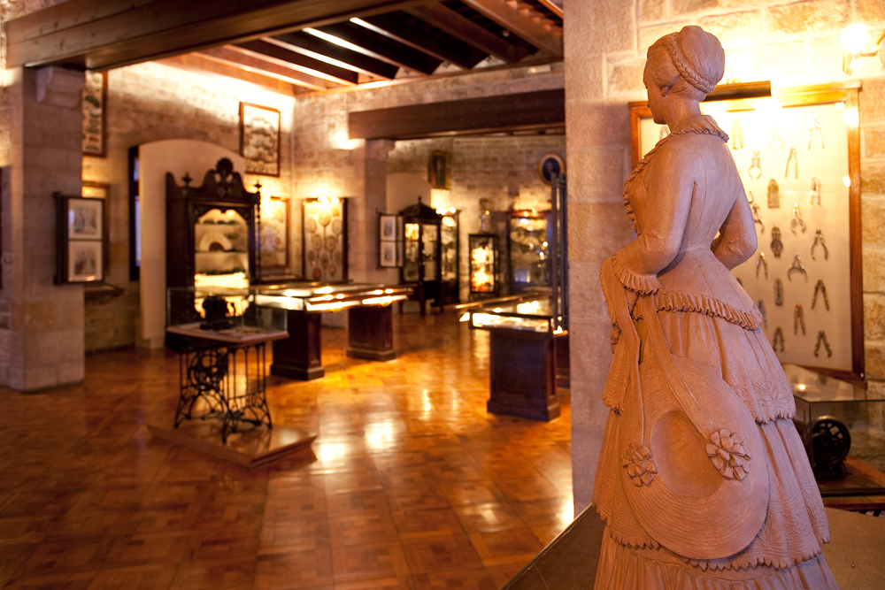 Ladies'Hall Frederic Marès Museum